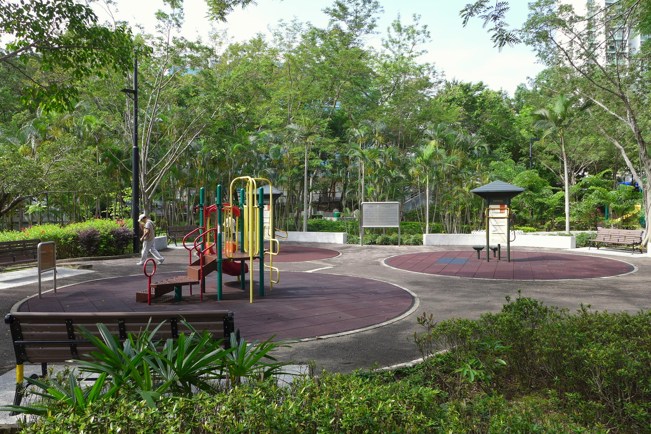 Lok Fu Recreation Ground Playground